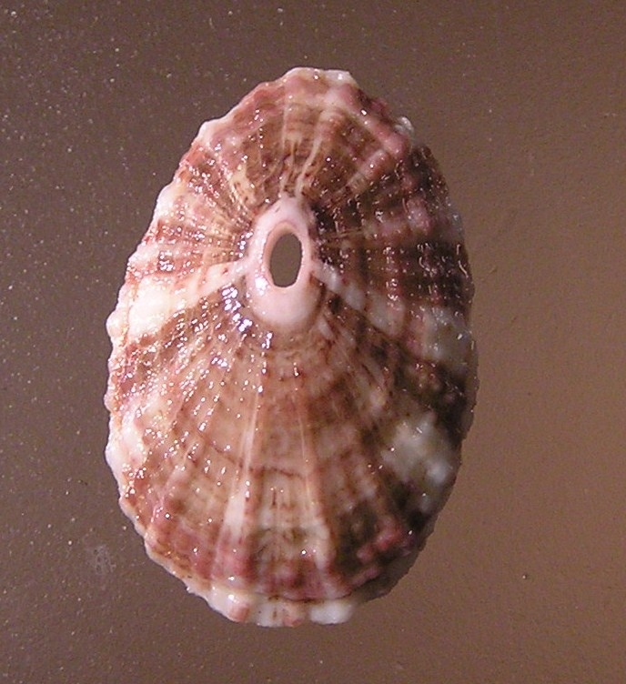 Fissurella rosea, (Gmelin, 1791); a keyhole limpet from the family Fissurellidae; Brazil